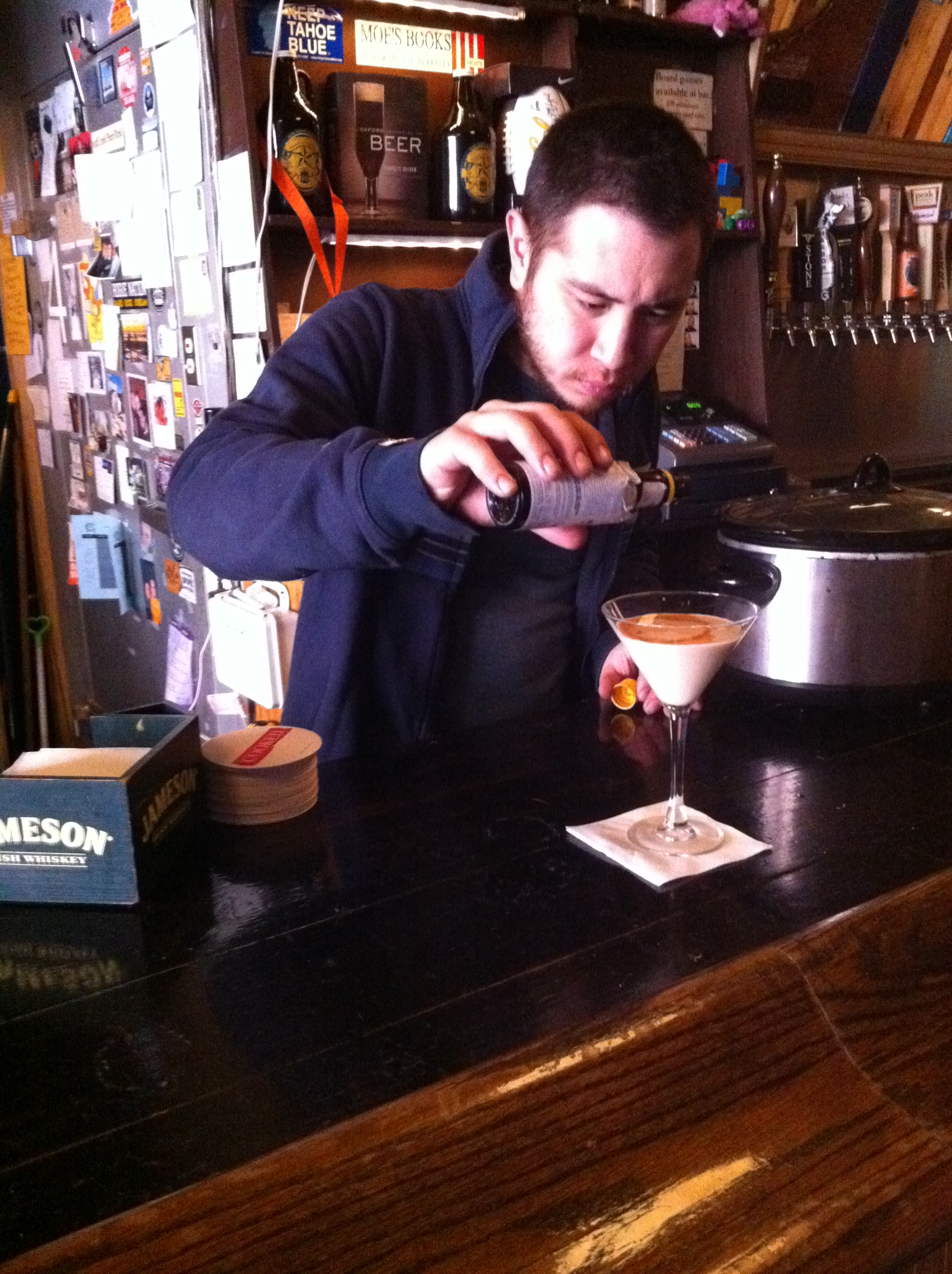 Pacific Standard bar owner Jonathan M. Stan at the bar, preparing the Santorum cocktail drink.